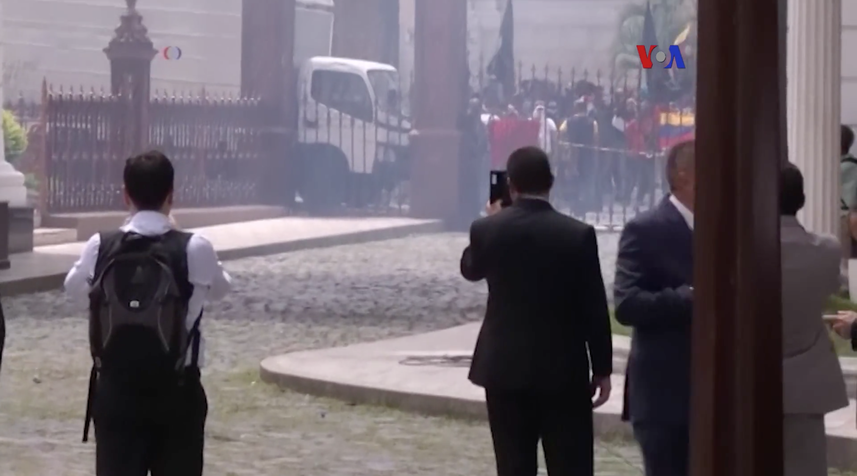 Pro-government individuals gather outside of the Palacio Federal Legislativo.